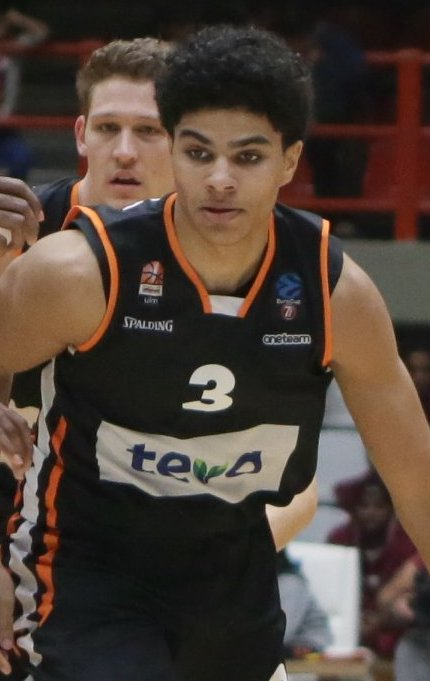 Basketball players Gerald Robinson (right) and Killian Hayes (left)